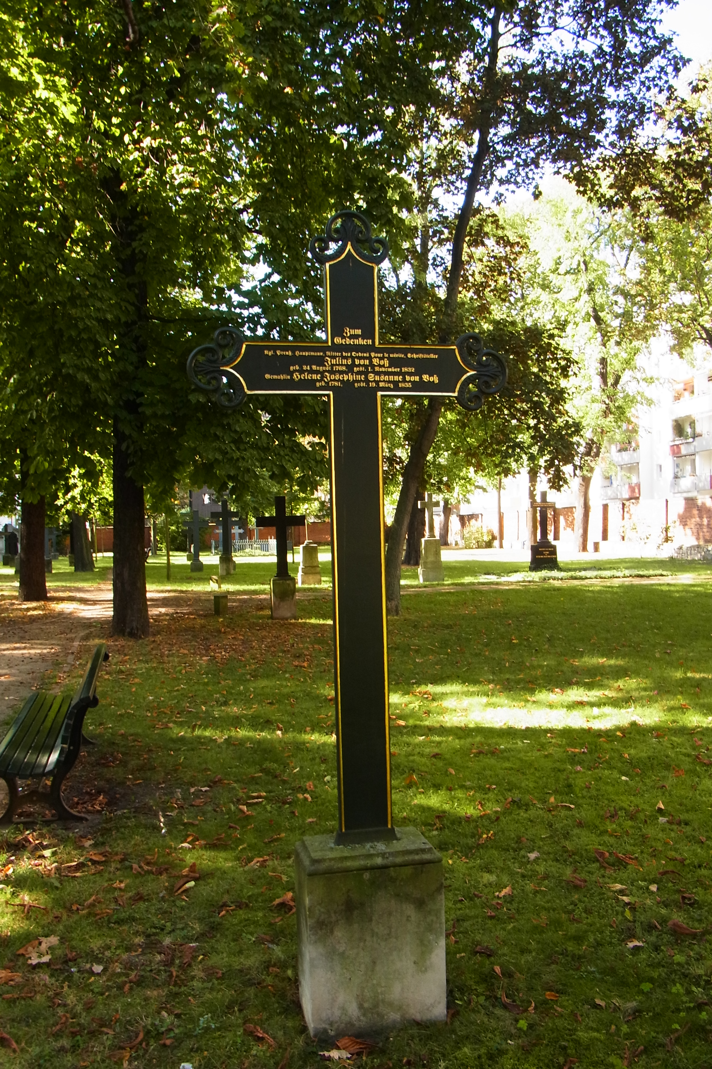 Memorial cross at Alter Garnisonfriedhof in Berlin dedicated to the german writer Julius von Voß.